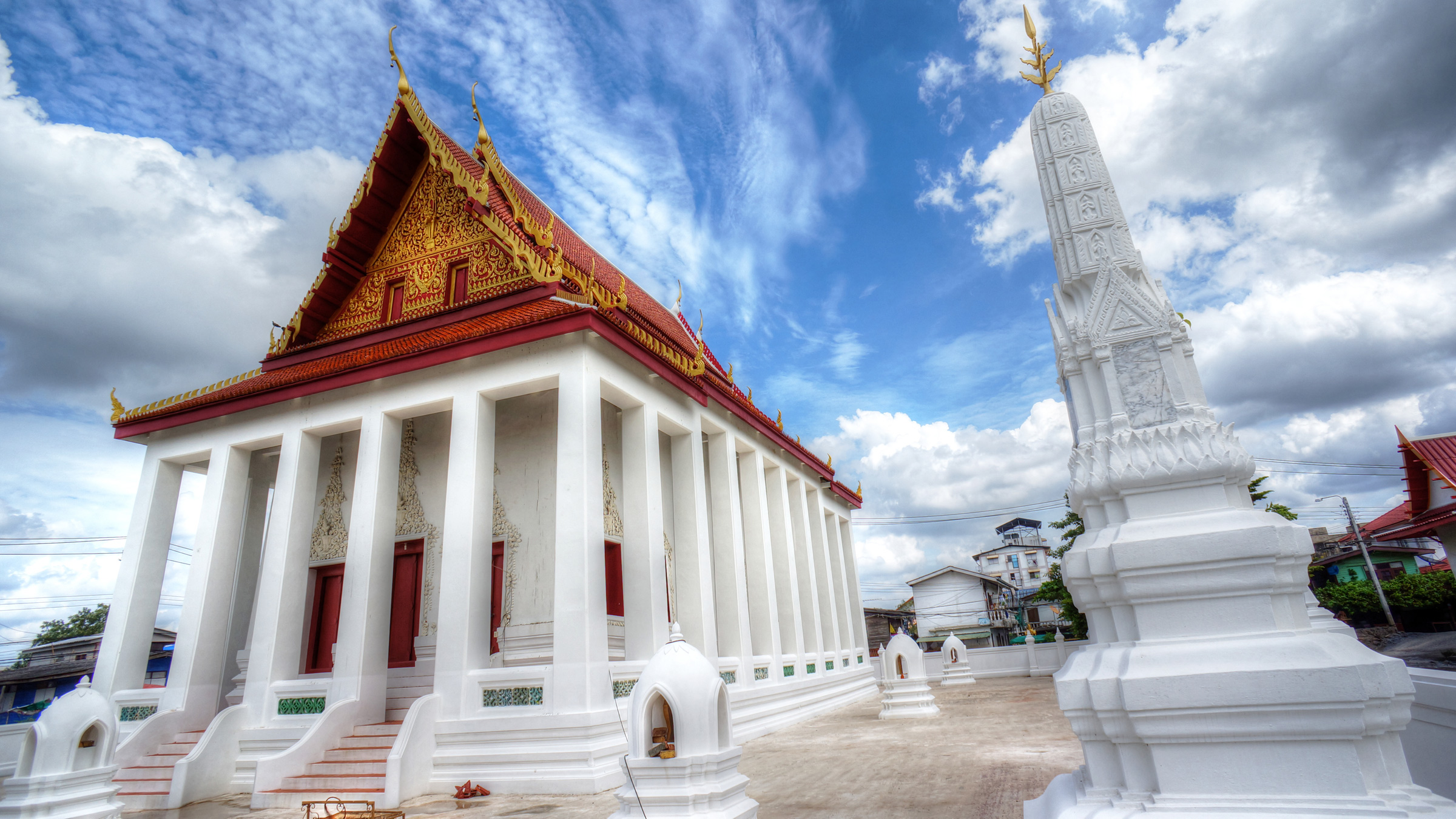 Wat Ko Phaya Cheng